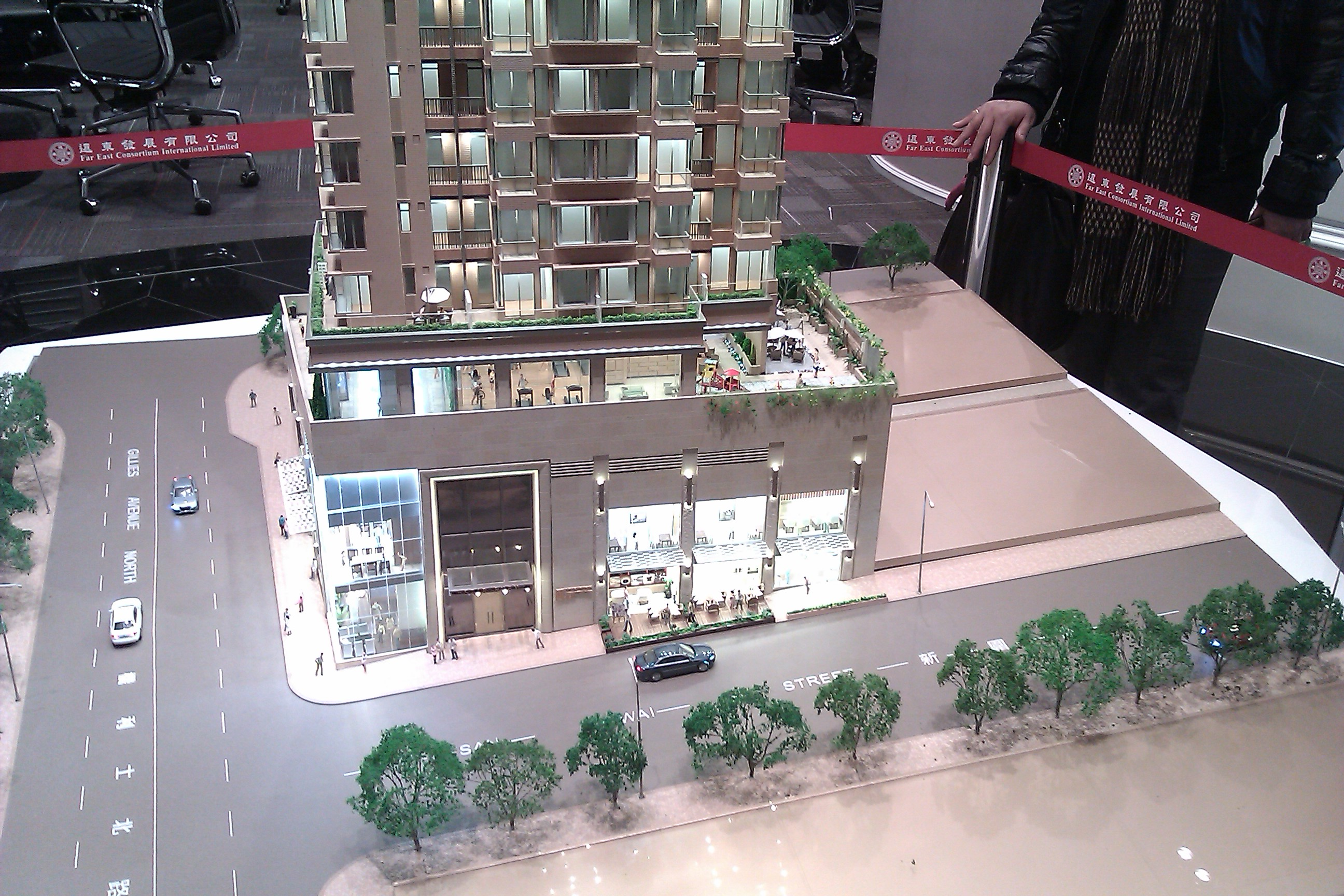 Star Ruby, hung hom, kowloon, hong kong 九龍紅磡 寶御